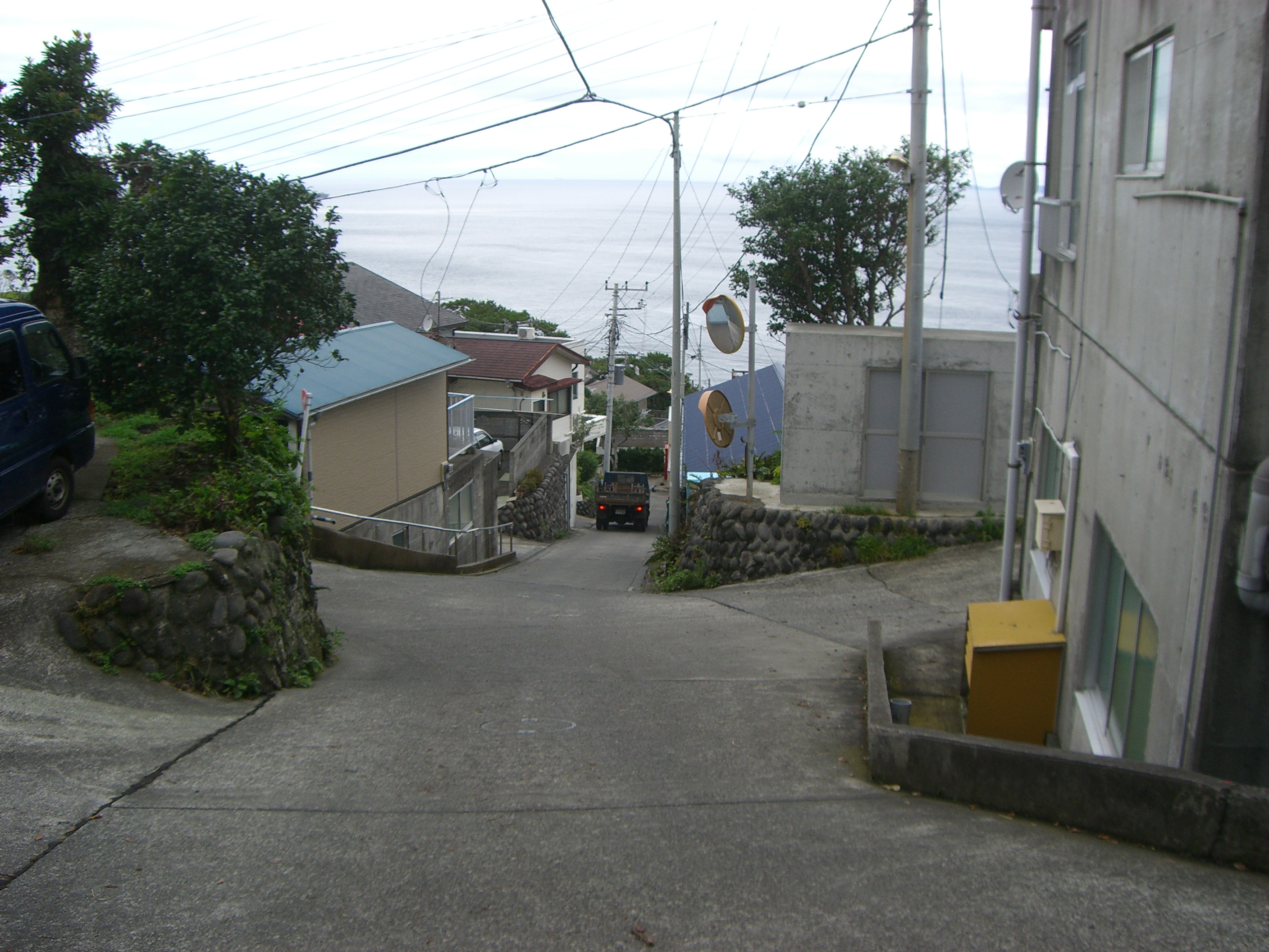 Toshima Island , Tokyo